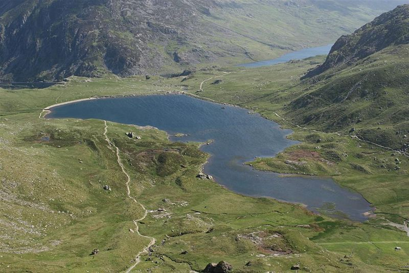 Llyn Idwal from Y Garn, Gwynedd